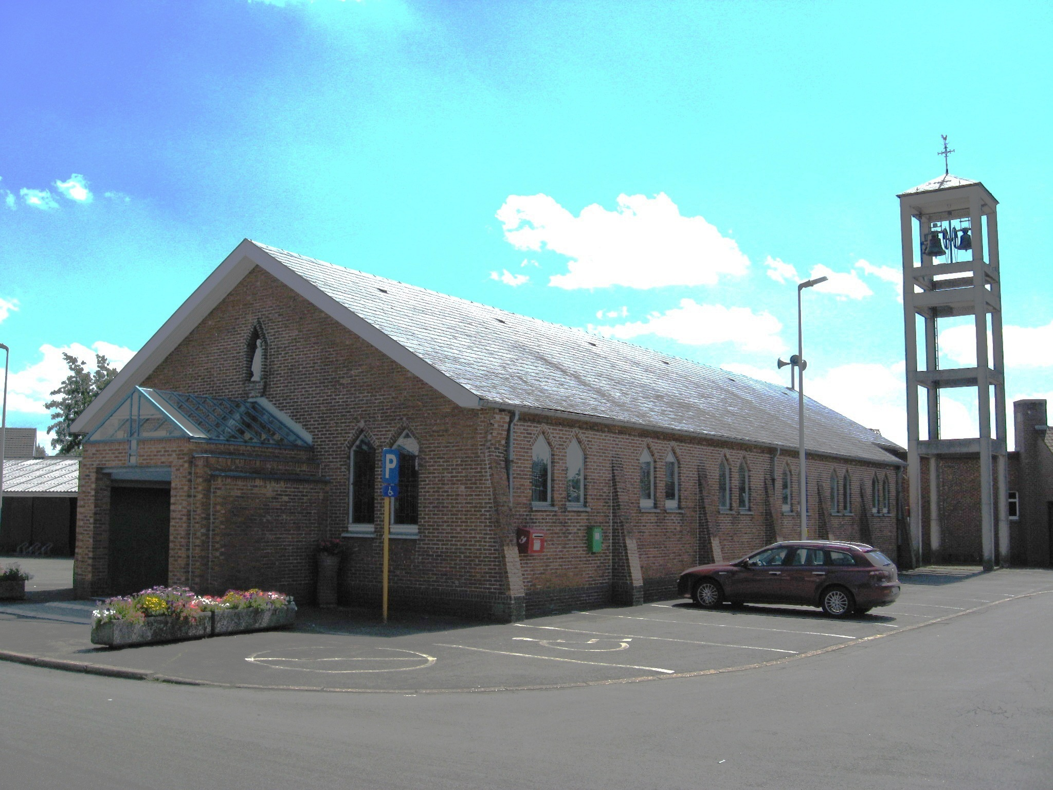 Church of Saint Joseph in Kuringen (Tuilt), Hasselt, Limburg, Belgium